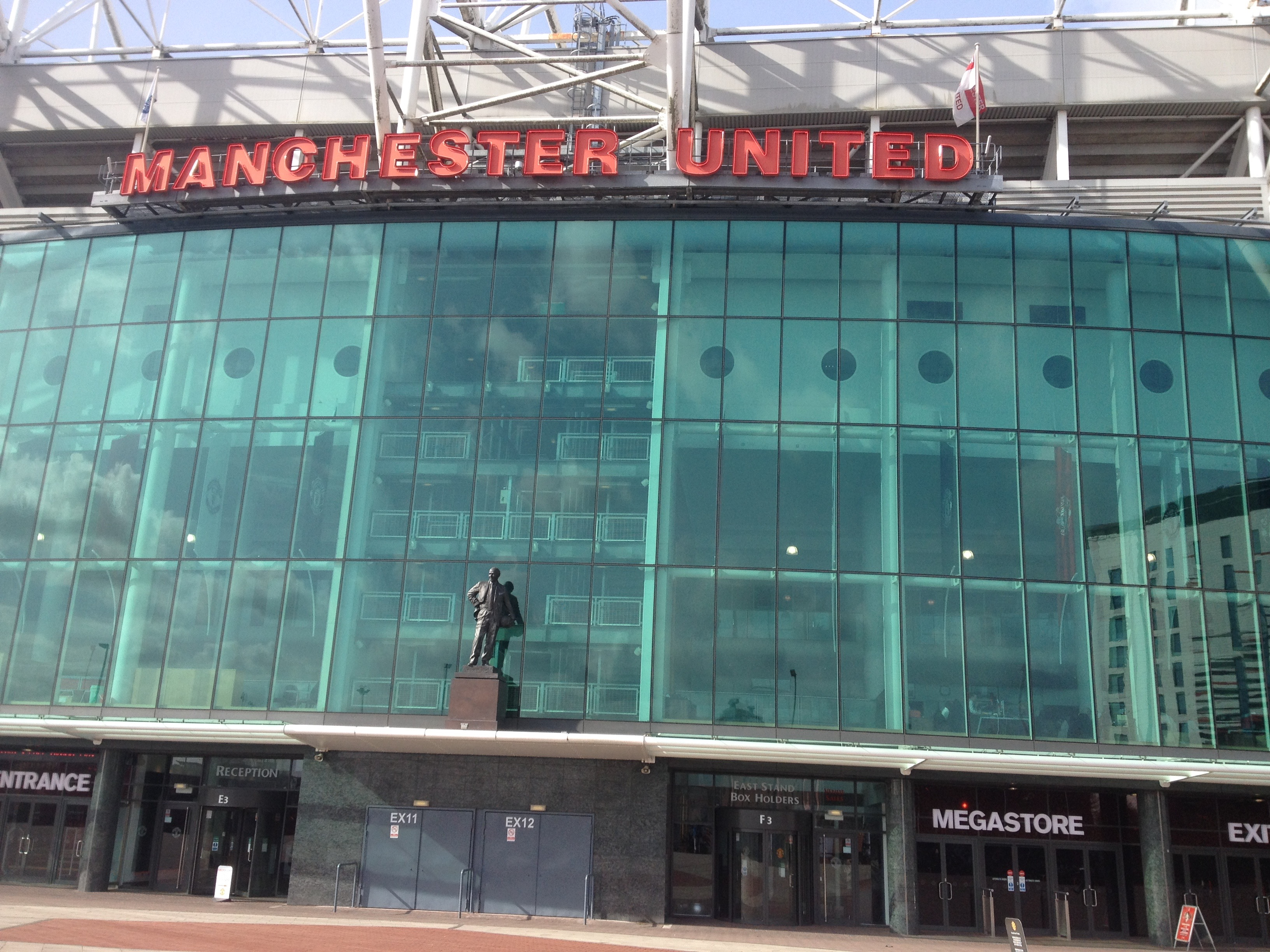 Old Trafford East Stand Entrance